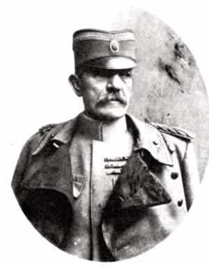 Photo of Živojin Mišić, from